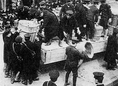 Takada Doburoku Incident